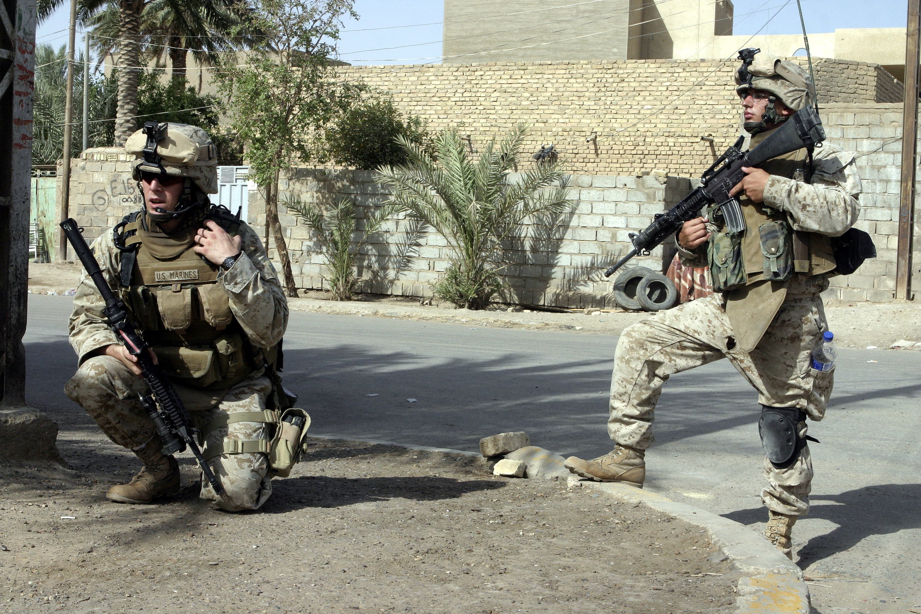 FALLUJAH, Iraq – Second Lieutenant Joseph Davis, 3rd Platoon commander, Company C, 1st Battalion, 6th Marine Regiment, talks on the radio while his radio operator, Lance Cpl. Brandon Sunderlin, provides security along a city street July 16 during Operation Hard Knock. Company C personnel worked alongside other battalion infantrymen and Iraqi Security Forces to search through a wired-off sector of Fallujah for weapons and insurgent activity, as well as gather census information on the populace